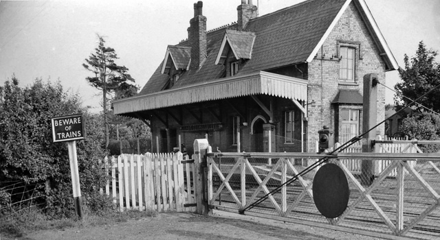 Bradfield Station (converted). View southward at crossing on ex-GER Manningtree (right)- Harwich (left)line. This station had been closed seven years before (2/7/56) and appears now to be a well-maintained private house. (Noisy?)